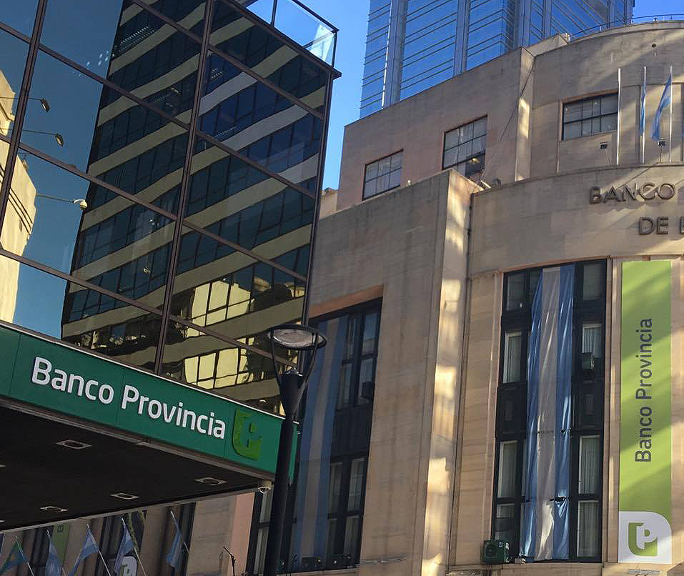 Buenos Aires City offices of Banco Provincia Bank